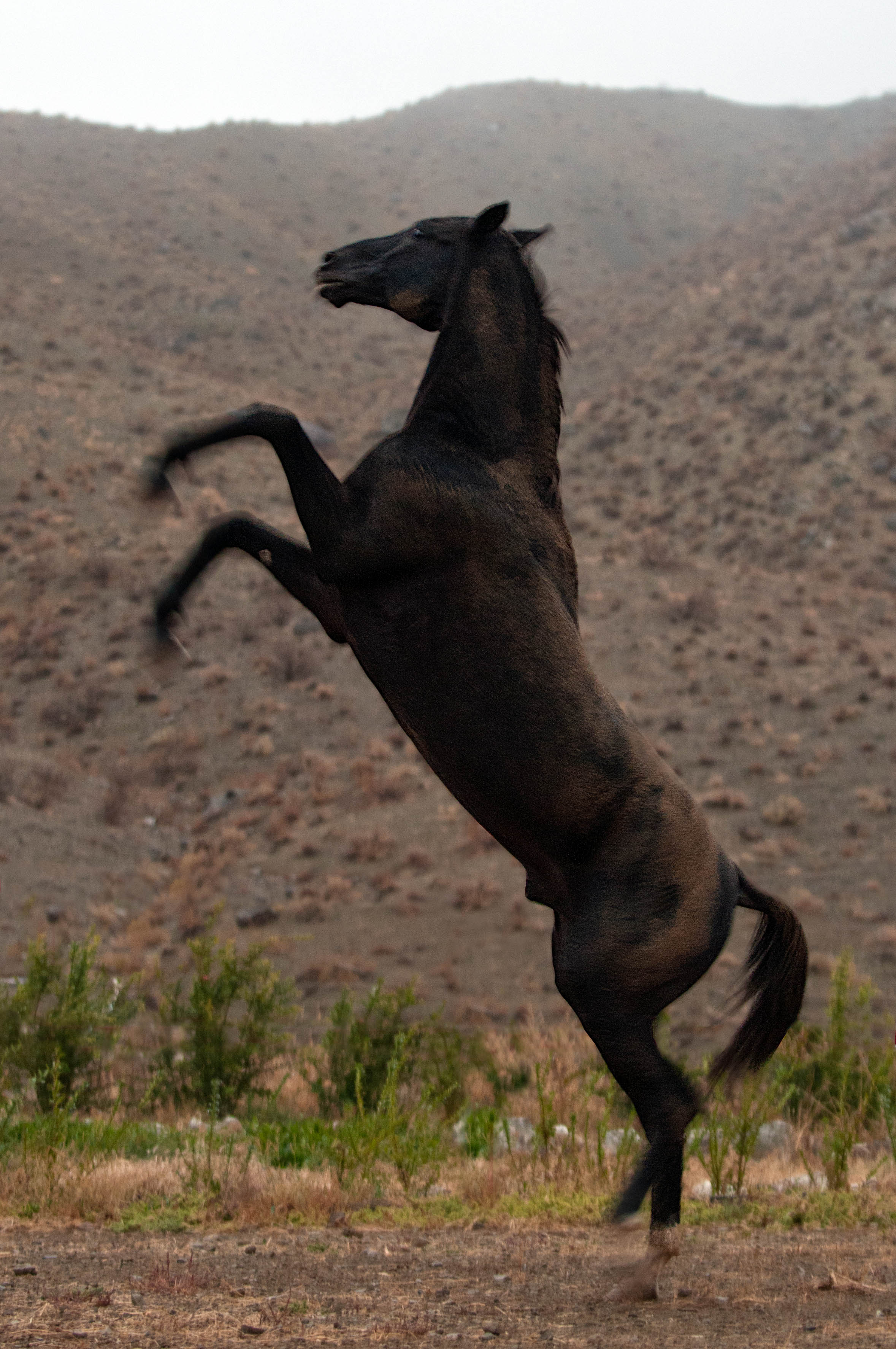 a wonderful visit to an Akhal-Teke studfarm in the mountains of Turkmenistan